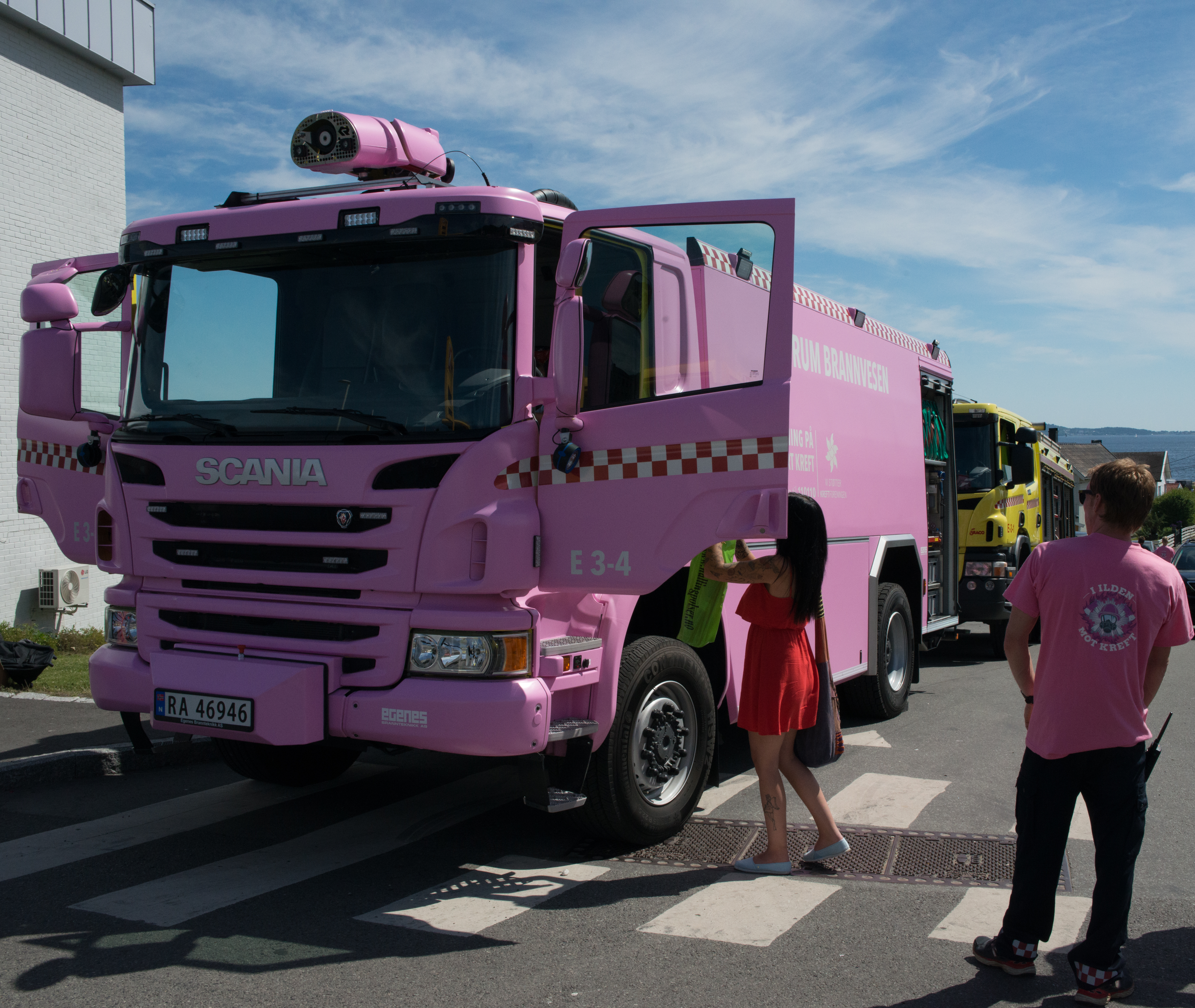 Pink Fire Truck from Hurum FD, Norway